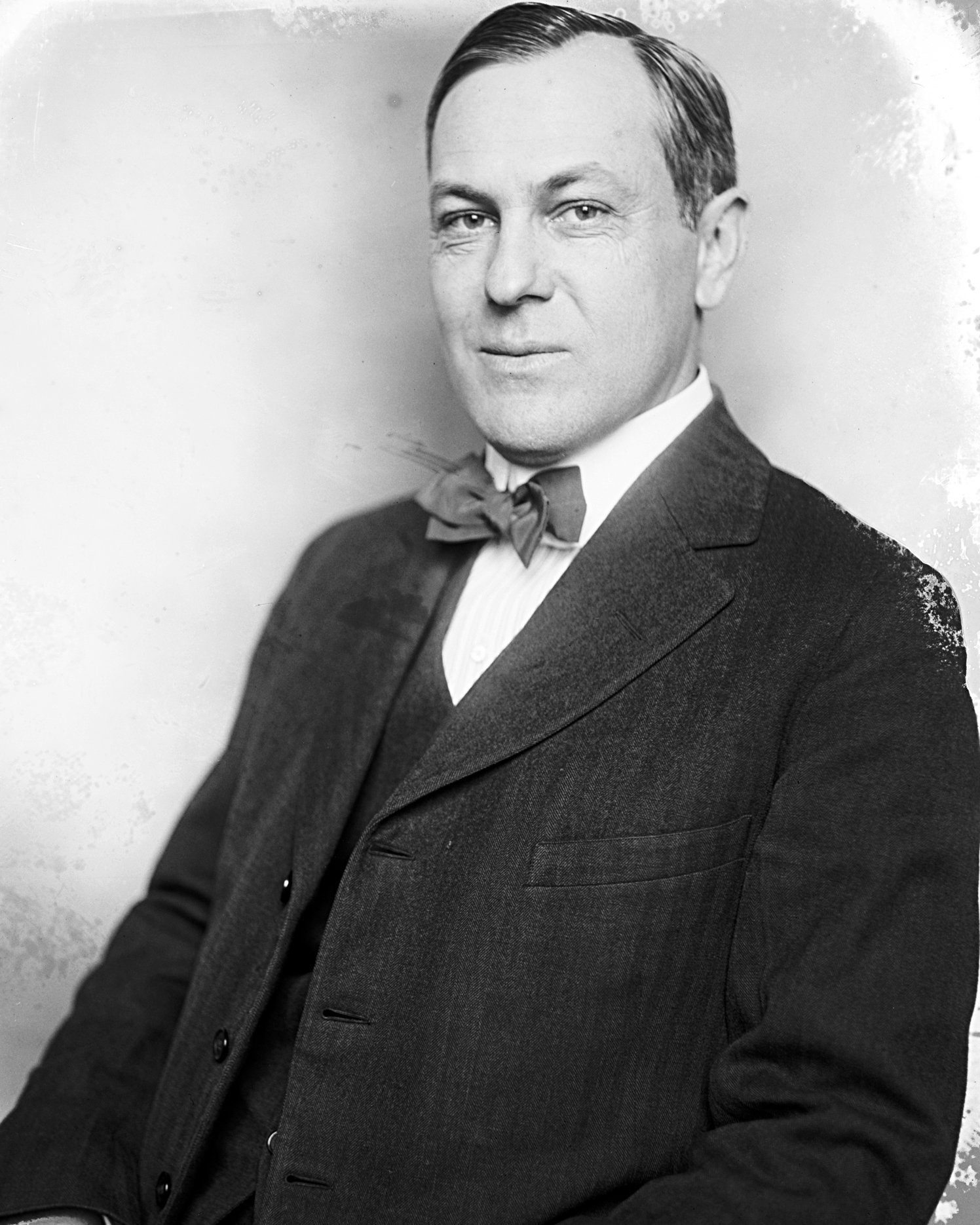 Fritz G. Lanham, US Representative from Texas